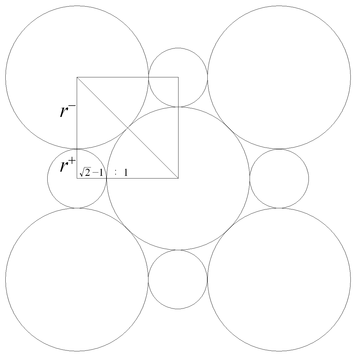 Ionnic radius - critical radius ratio